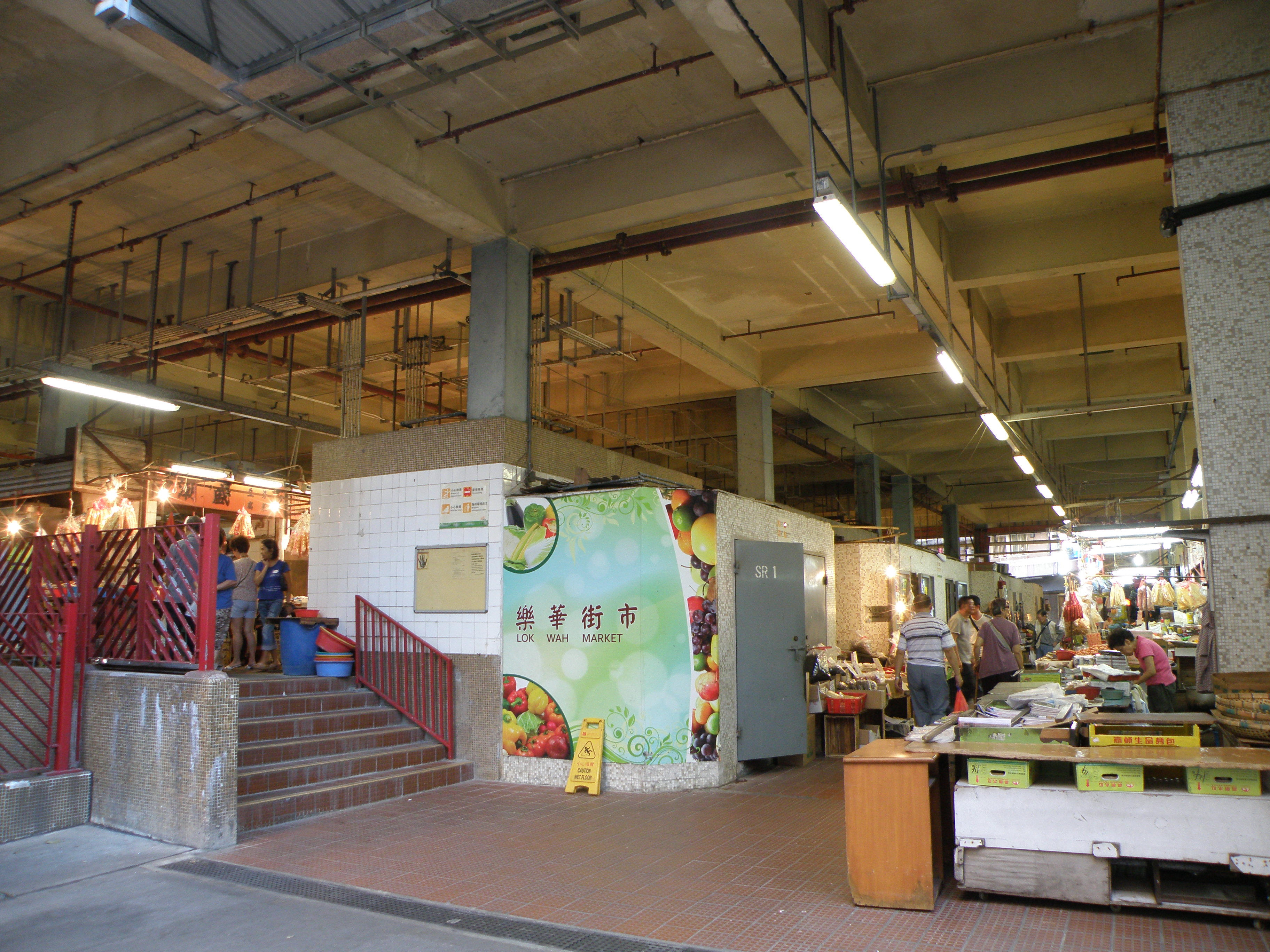 Lok Wah Market in Ngau Tau Kok, Hong Kong.